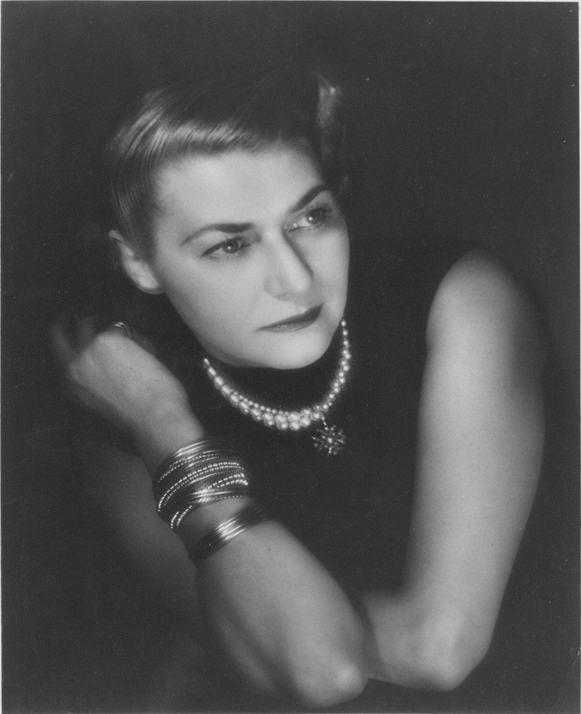 Publicity Portrait of fashion designer Pauline Trigère